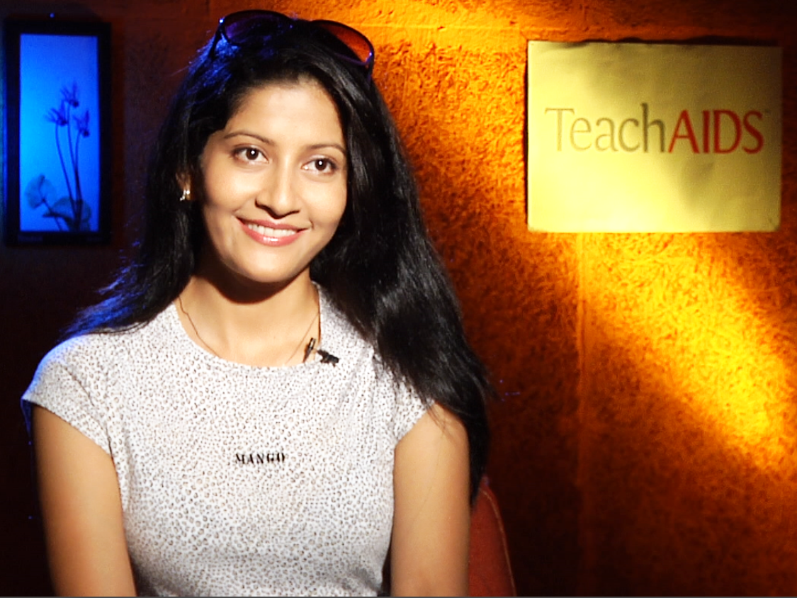 Actress Anu Choudhury gives a behind-the-scenes interview for the Odia language version of the TeachAIDS animation at Sur Vibrations in Bhubaneswar, Odisha. Photo credit: TeachAIDS